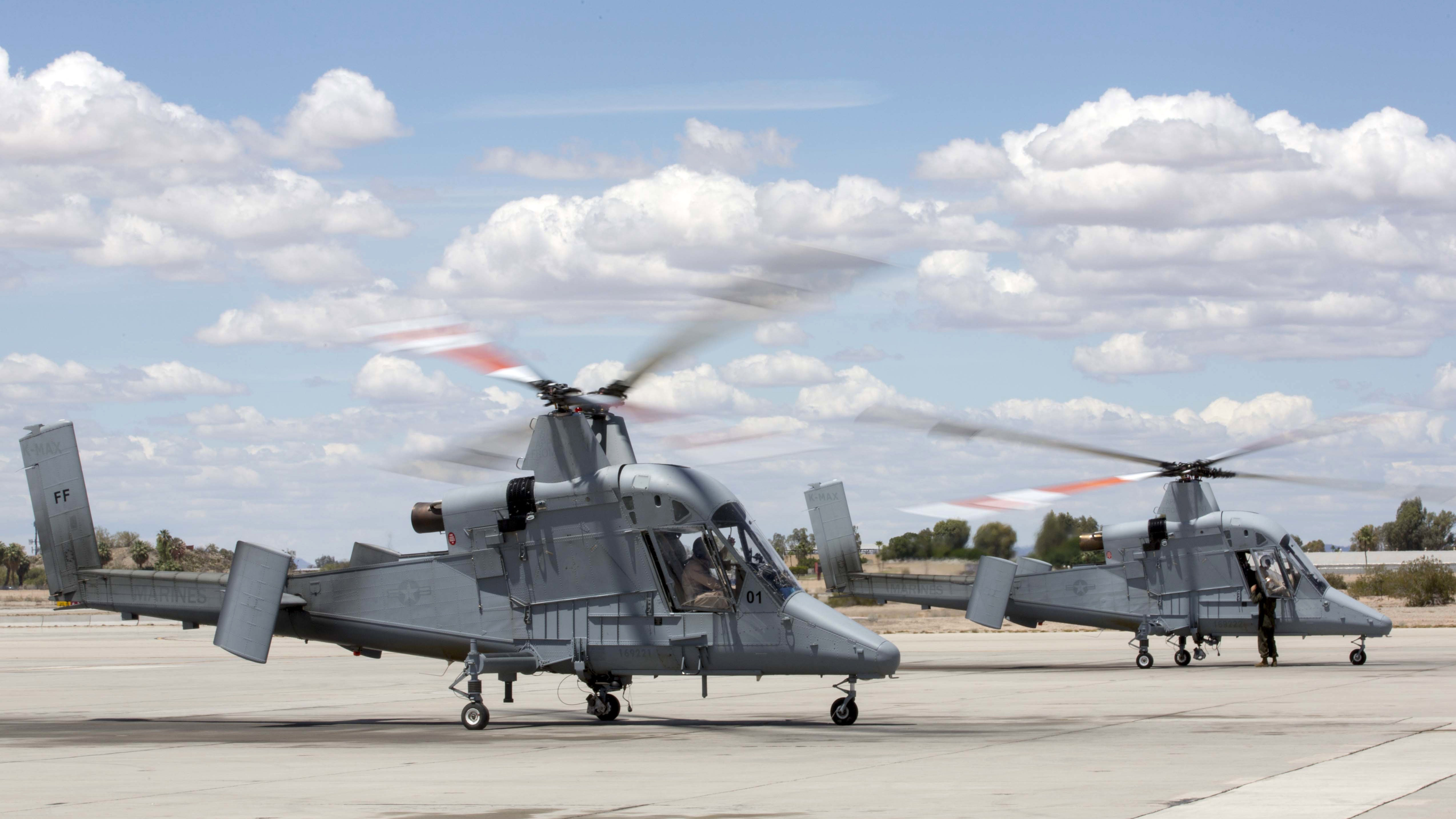 The Marine Corps’ first two Kaman K-MAX Helicopters arrived at Marine Corps Air Station Yuma, Ariz., Saturday, May 7, 2016. The K-MAX will be added to MCAS Yuma's already vast collection of military air assets, and will utilize the station’s ranges to strengthen training, testing and operations across the Marine Corps.